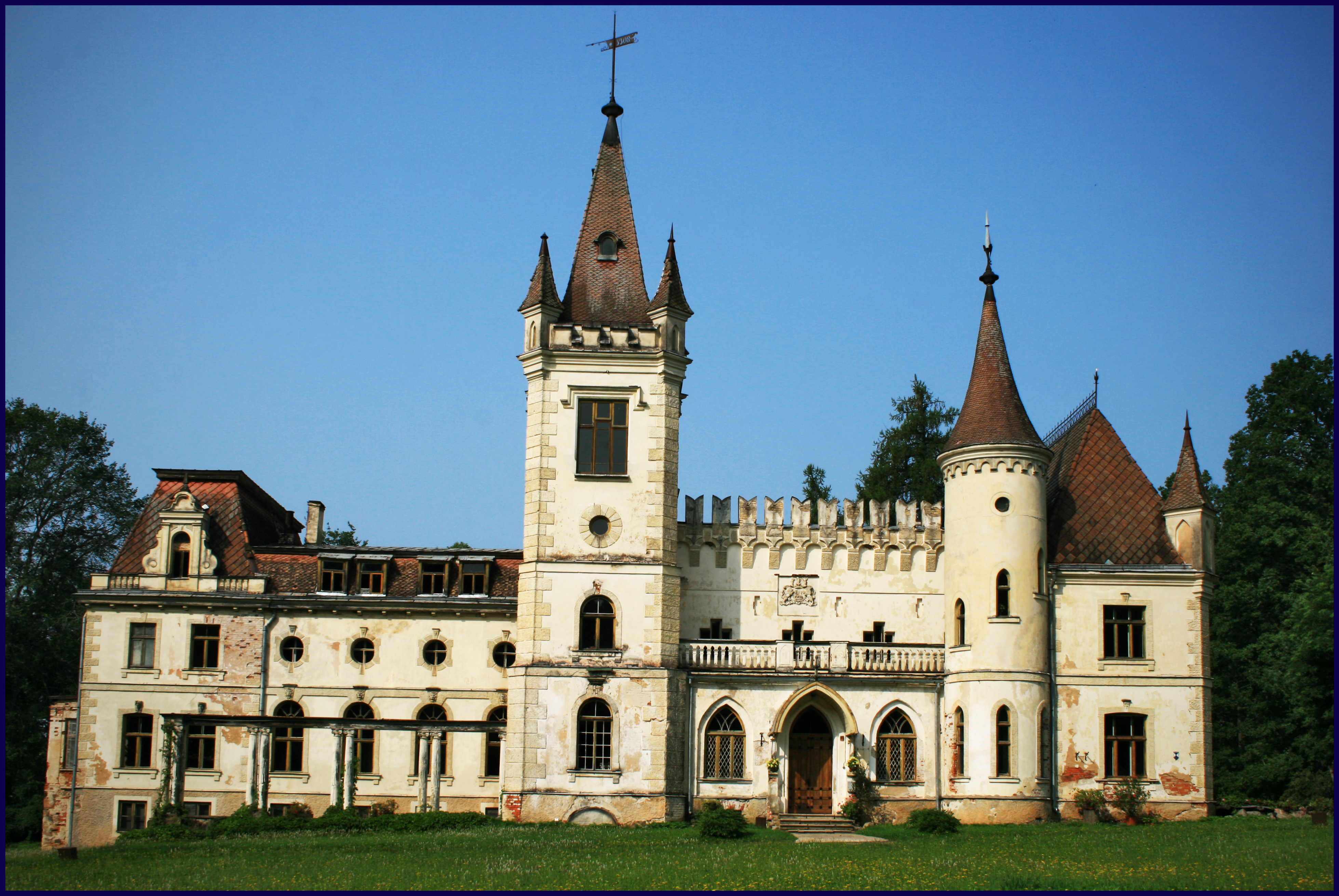 Stāmeriena PalaceLatviešu: Stāmerienas muižas pils